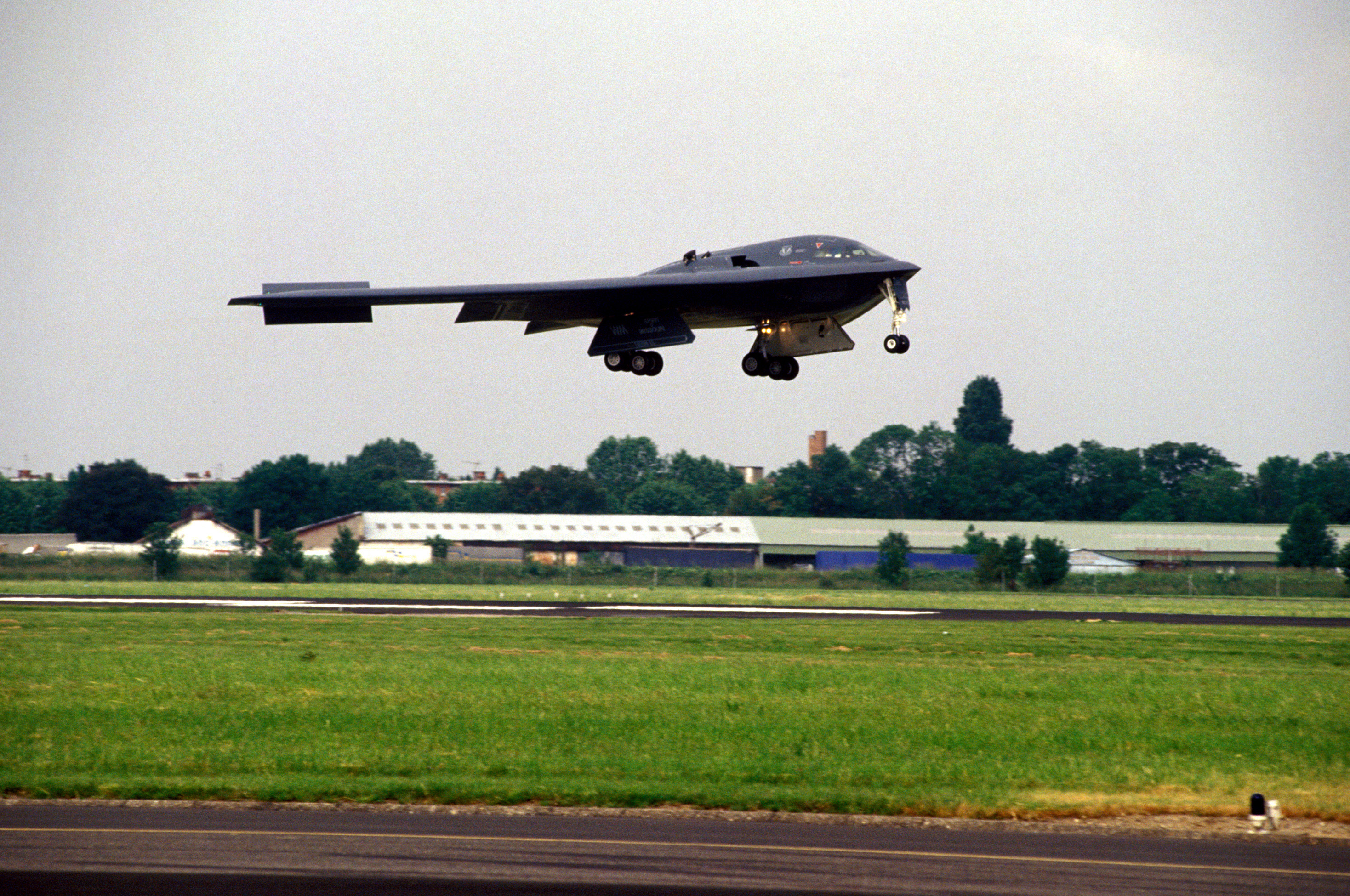 A stealth B-2 Spirit comes in for a landing at Le Bourget Airport during a flight demonstration at the 41st Paris Air Show. The Spirit is attached to the 509th Bomb Wing, Whiteman Air Force Base, Missouri.